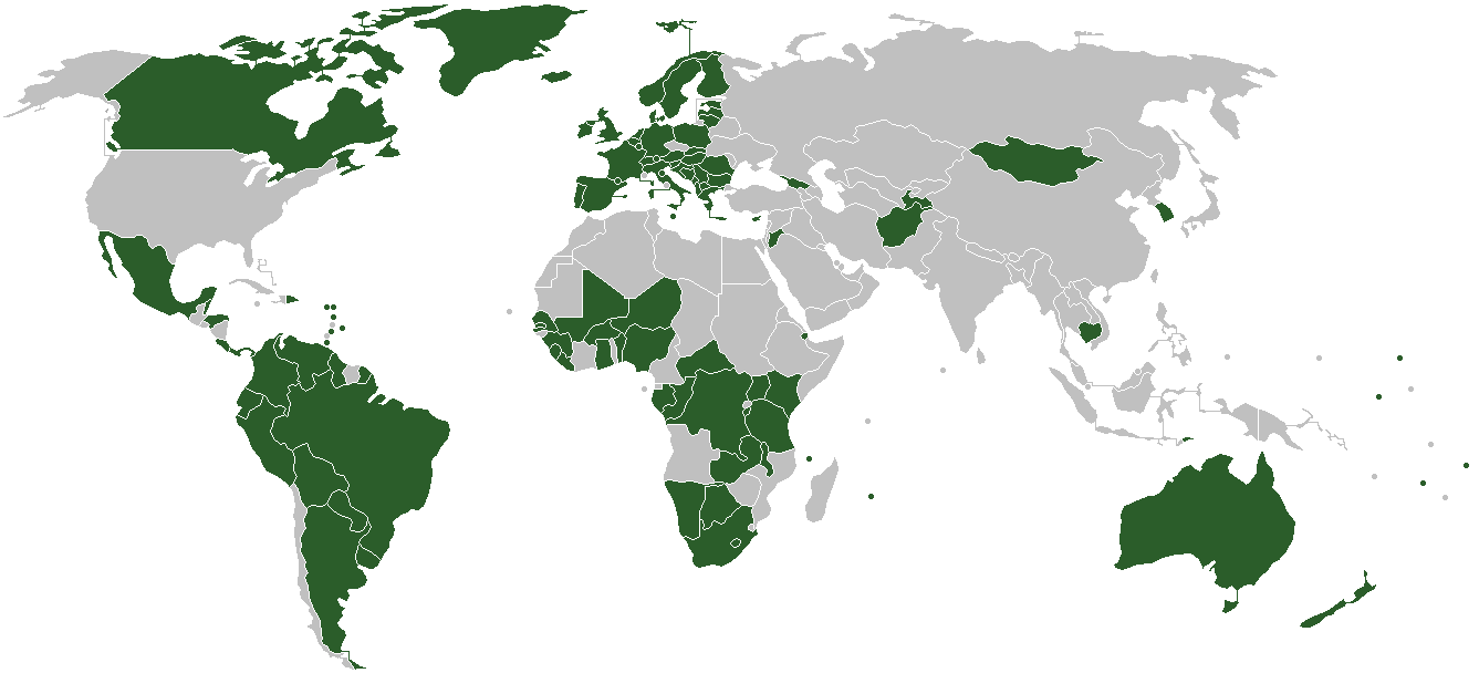 World map indicating the member states of the International Criminal Court, updated to 19 July 2007. This map is outdated. Please use Image:ICCmemberstatesworldmap102007.png instead.